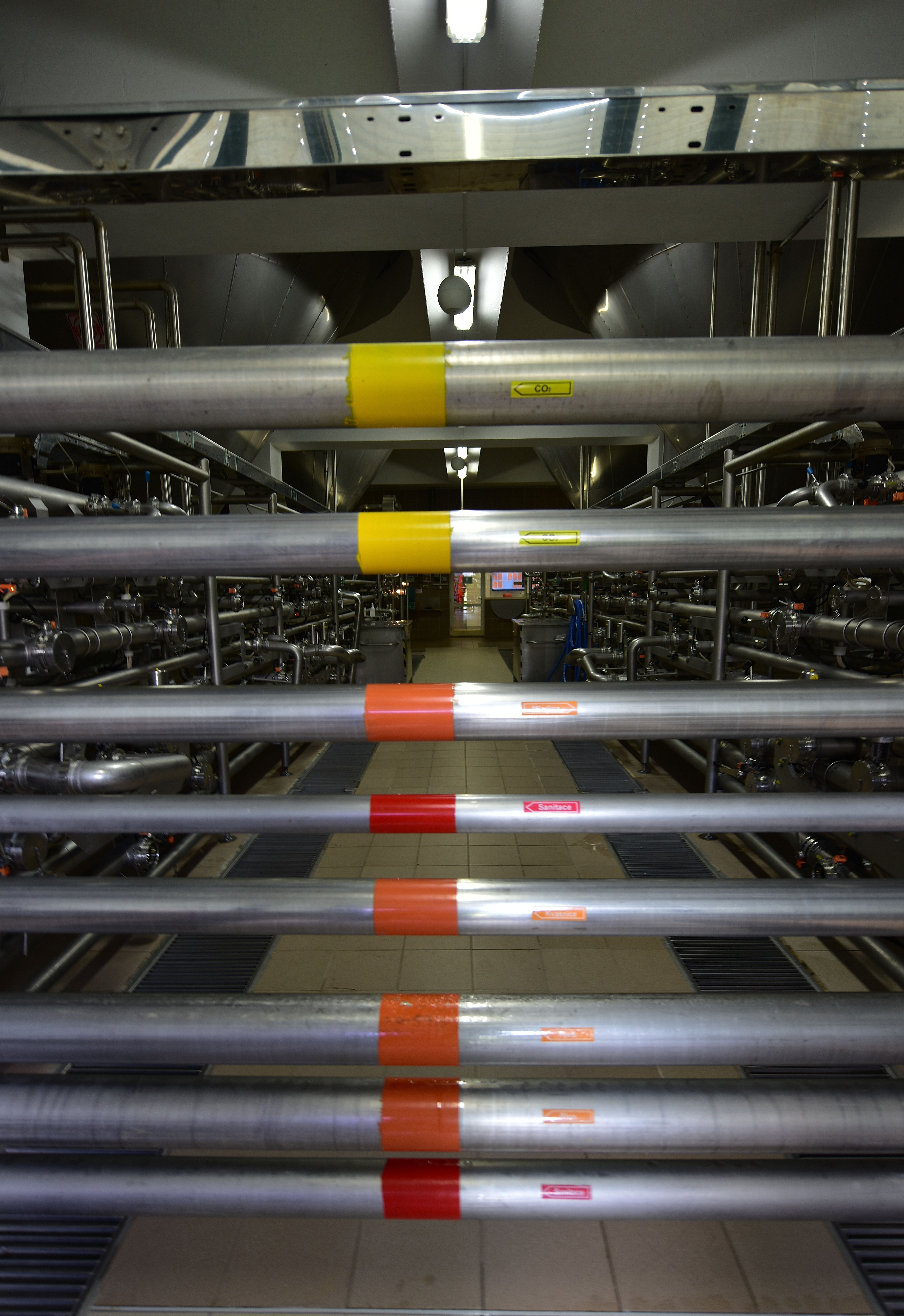 Visual management. Radegast Brewery in Nošovice